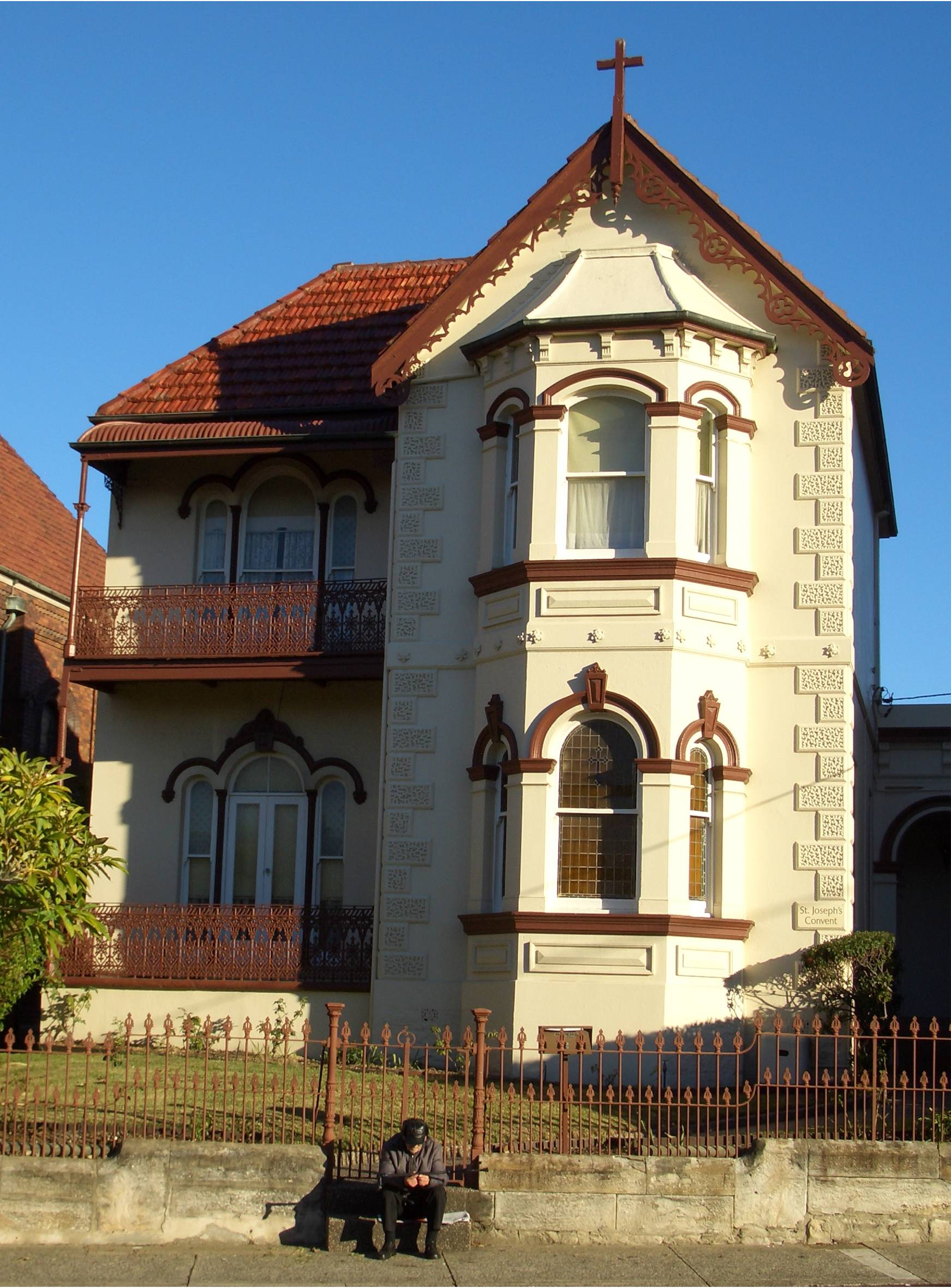 Arncliffe former St Xavier's Catholic Presbytry